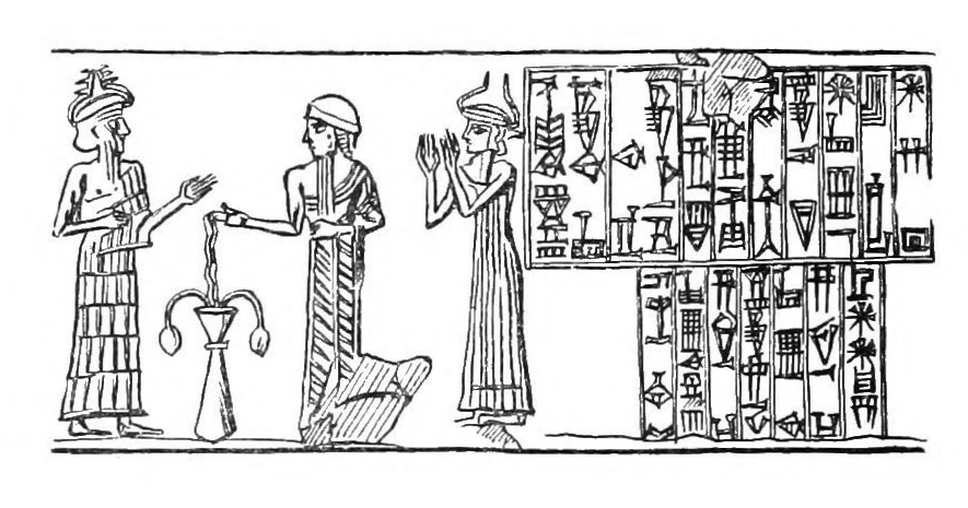 Shulgi seal (drawing)